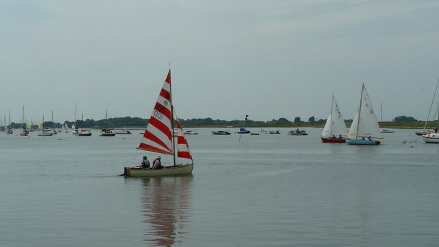 Bosham Channel A small yacht has just left the sailing club, and is sailing out into Bosham Channel.